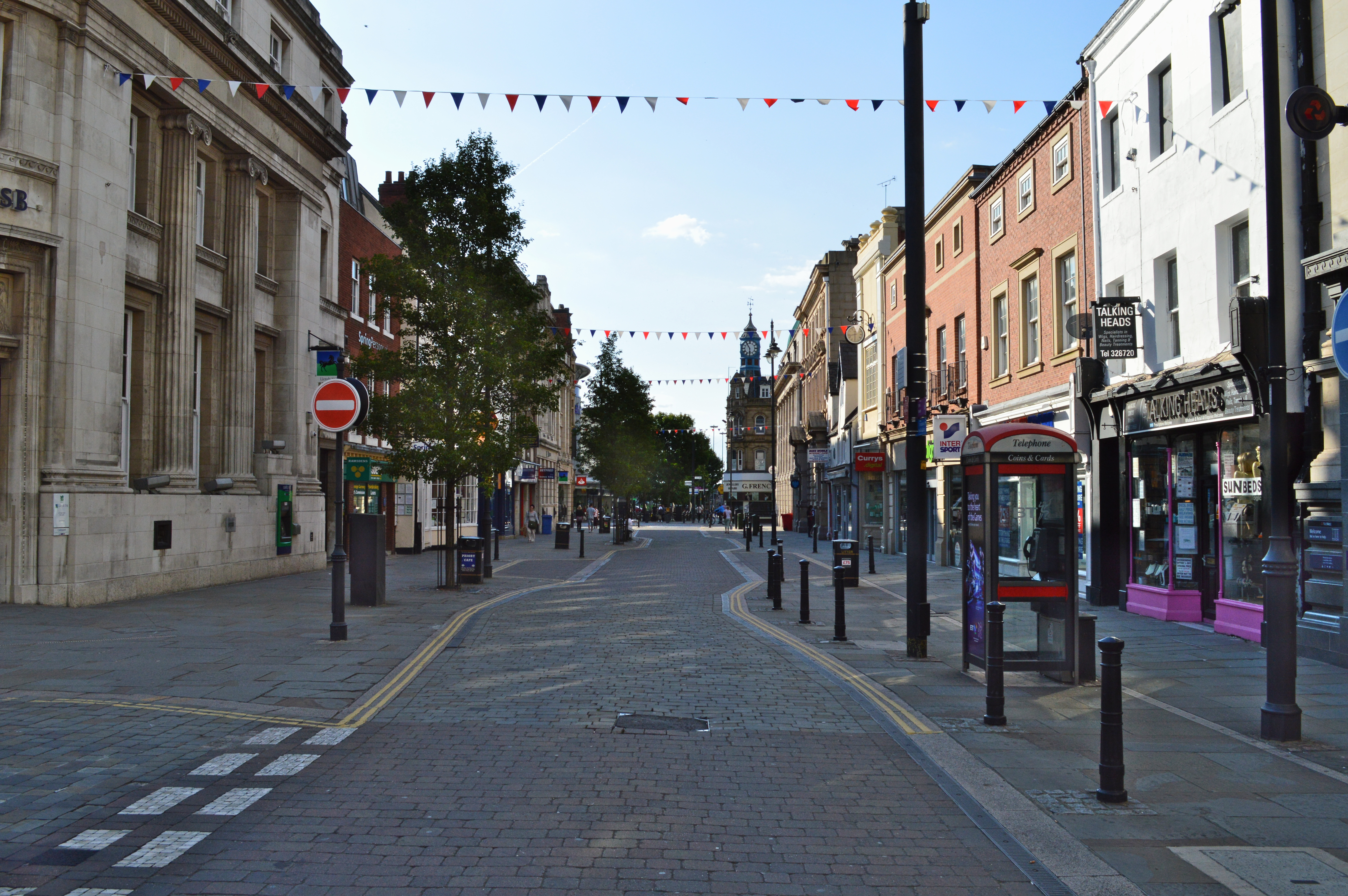 Doncaster Town Center